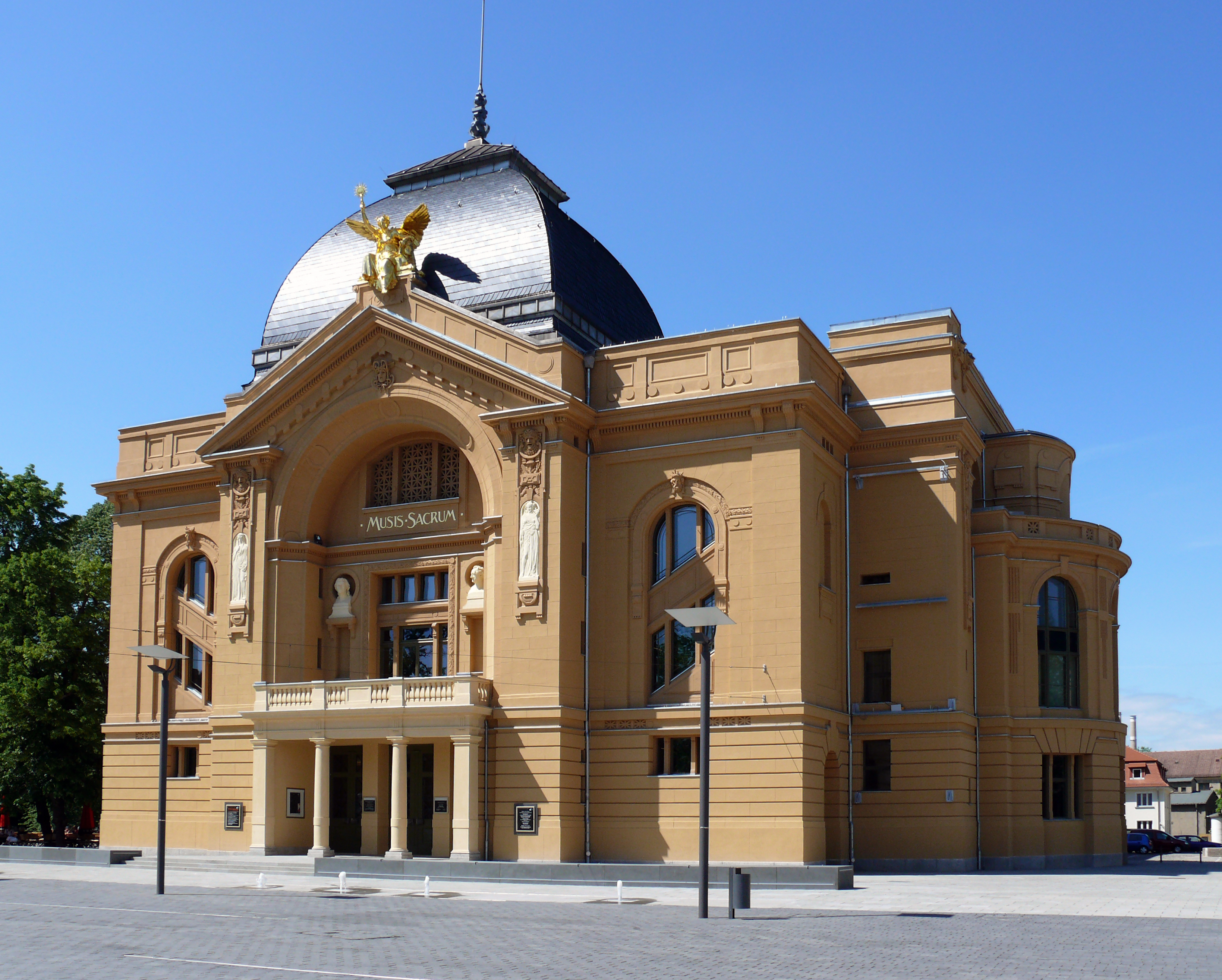 Theatre in Gera, 2007